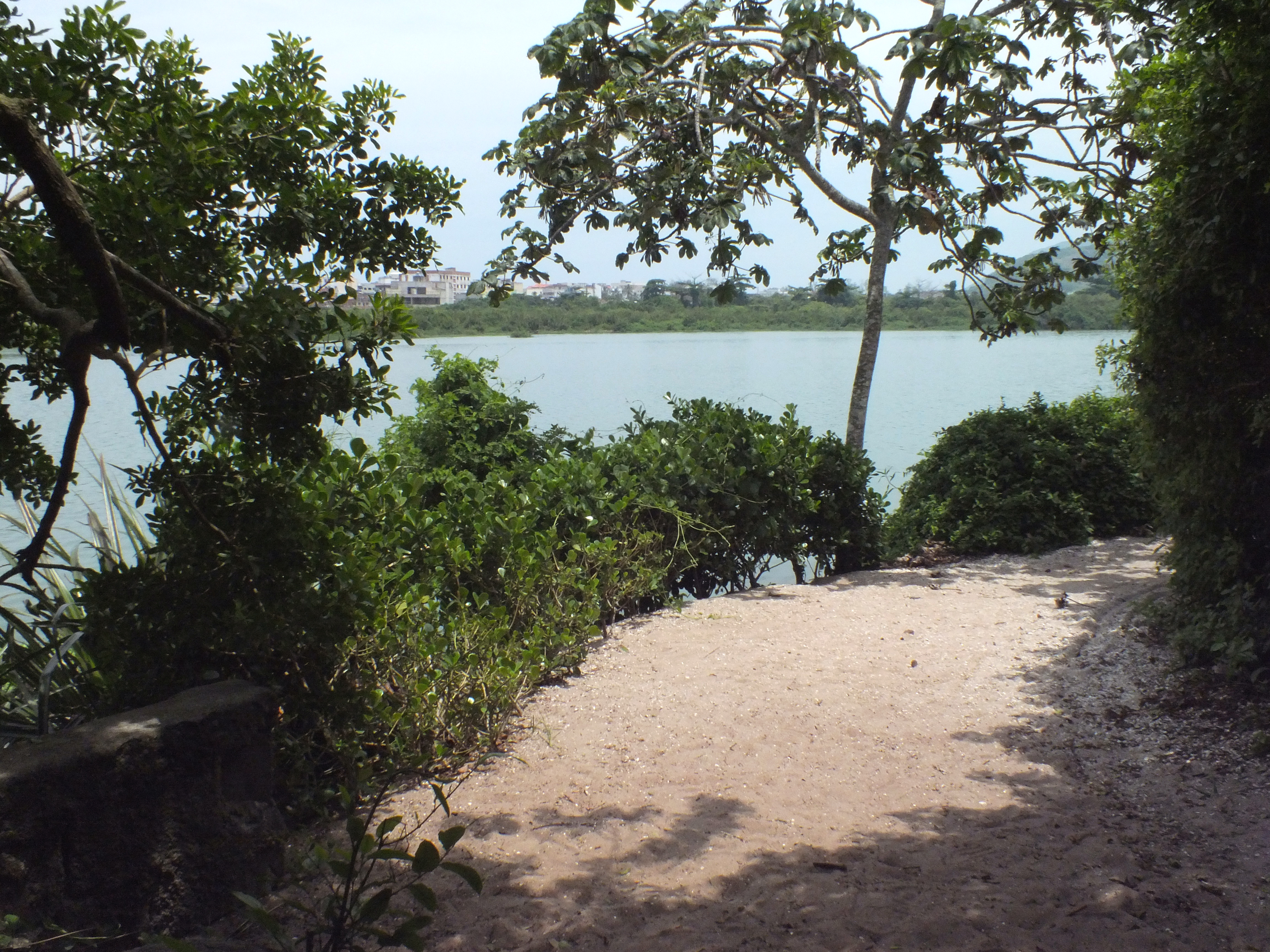 Parque Ecológico Chico Mendes